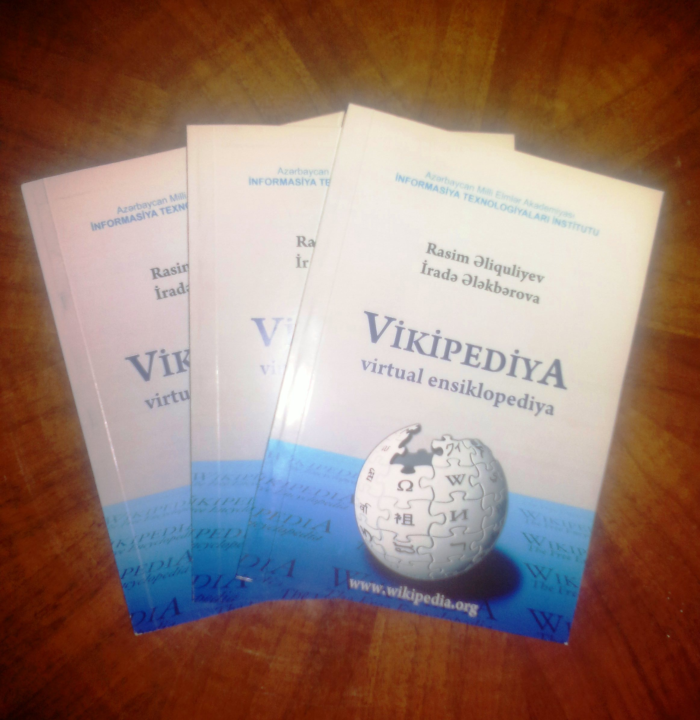 Azerbaijani book about Wikipedia: "Wikipedia. Virtual encyclopedia".